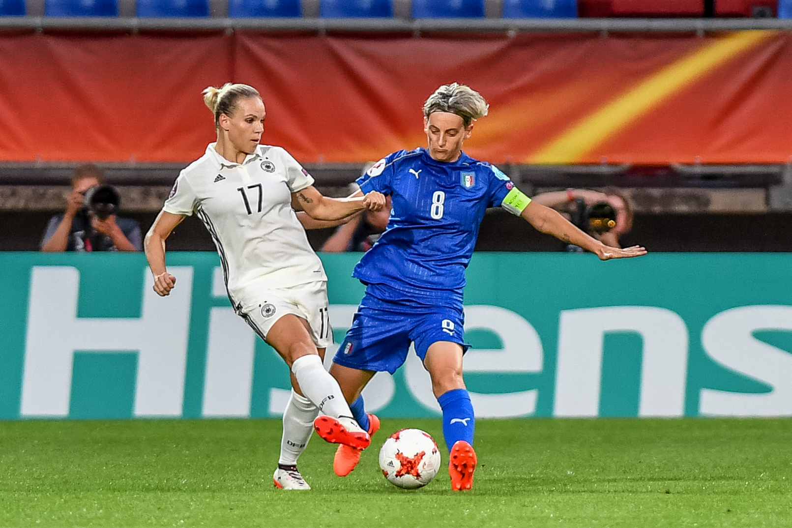 21/7/2017, Tilburg, Netherlands, sports, soccer, UEFA Women's Euro 2017 - Germany vs Italy.